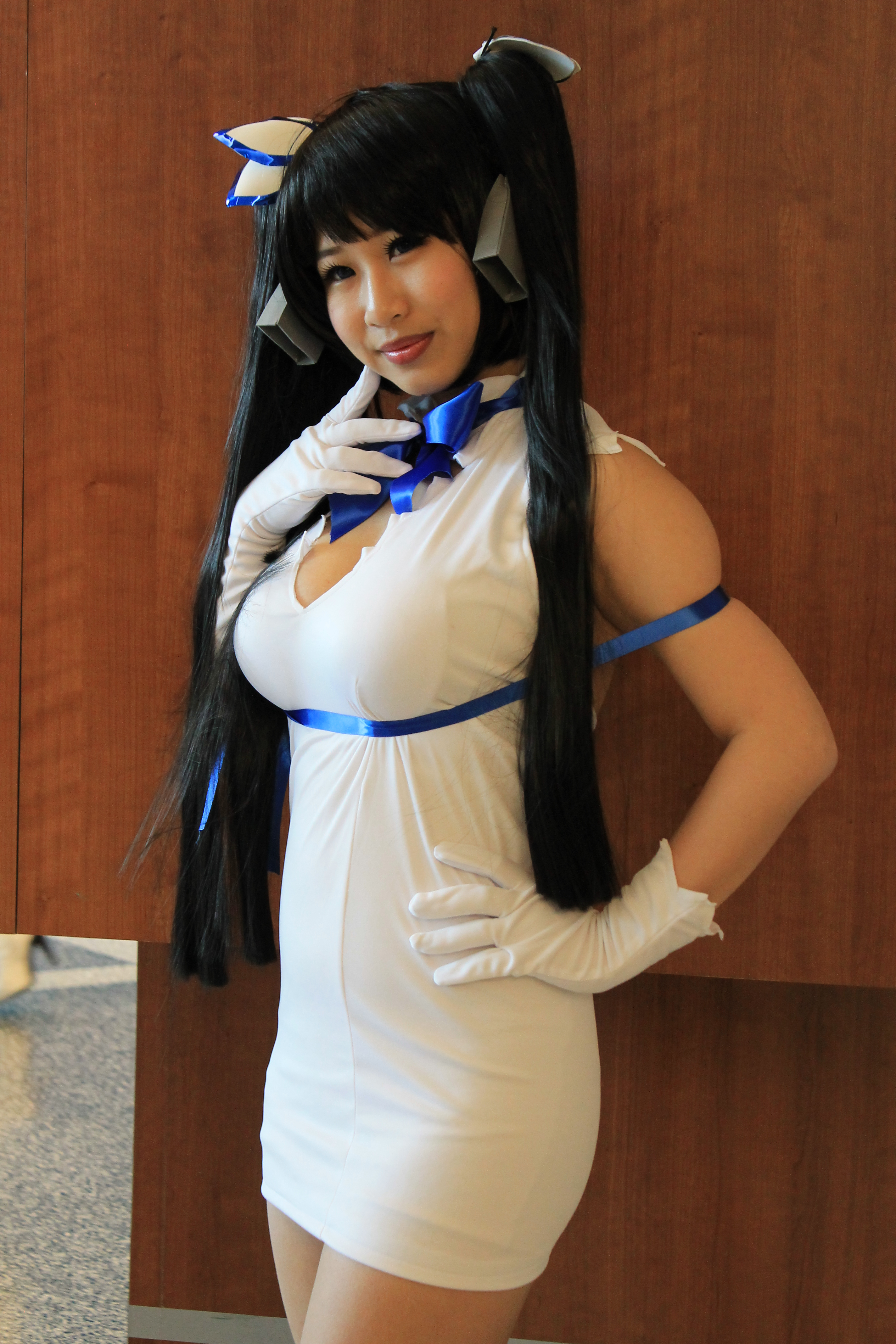 中文（台灣）: FanimeCon 2015，《在地下城尋求邂逅是否搞錯了什麼》赫斯緹雅cosplayer。